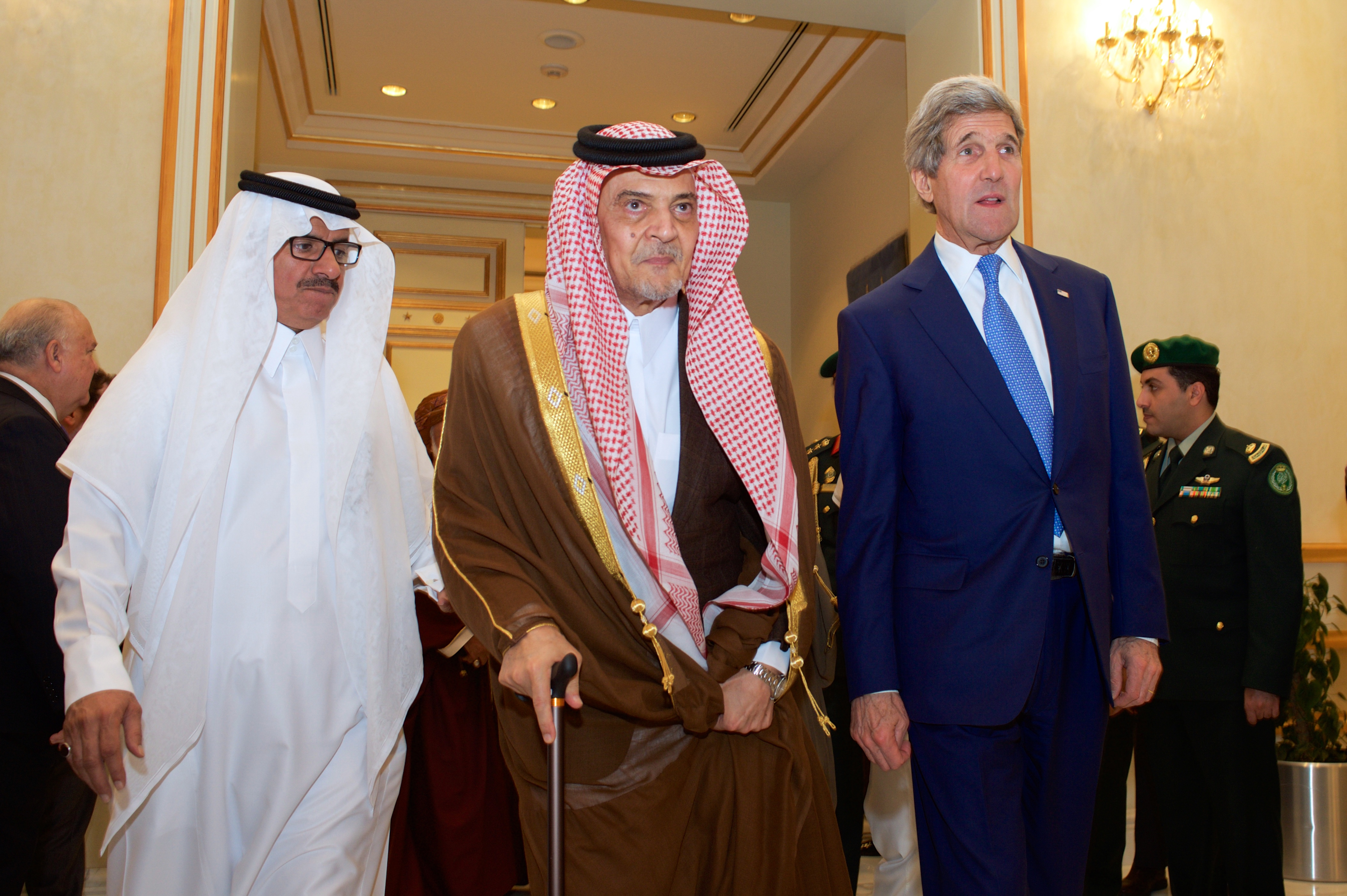 U.S. Secretary of State John Kerry walks with Foreign Minister Saud al-Faisal of Saudi Arabia on March 5, 2015, in Riyadh, Saudi Arabia, before the two attend a meeting of the regional Gulf Cooperation Council. [State Department photo/ Public Domain]